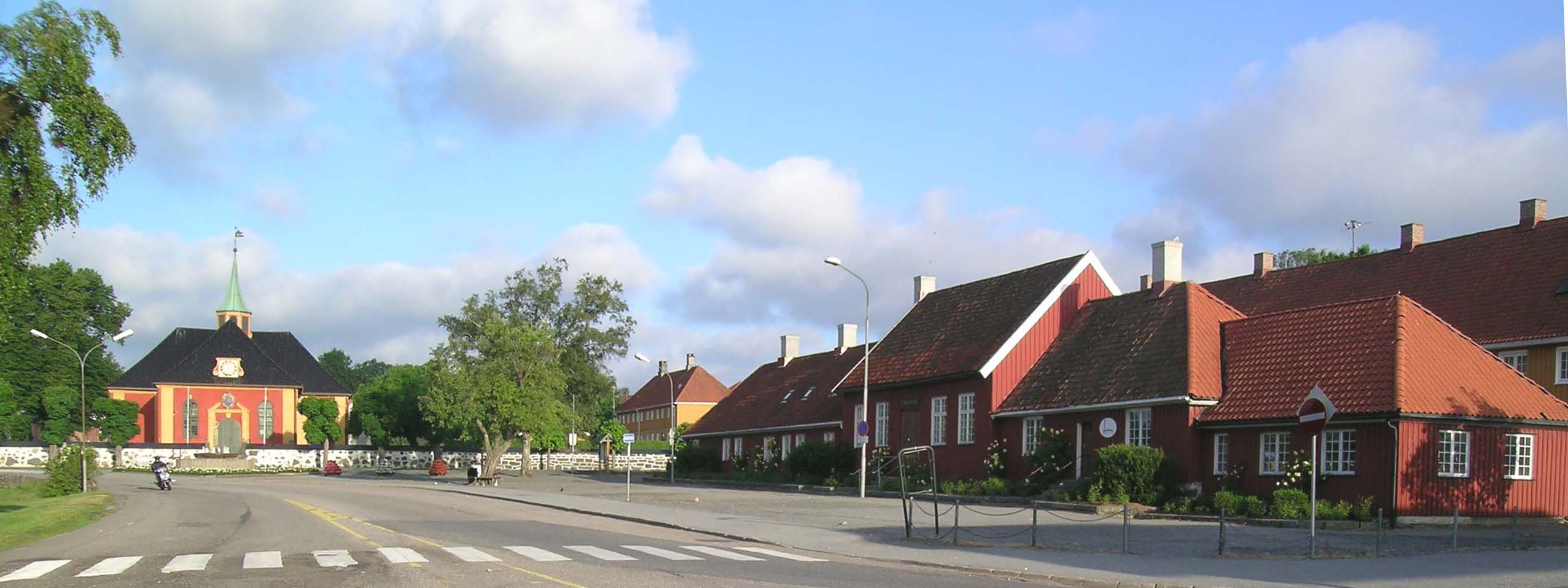 Stavern, Norway: Torget (The market).